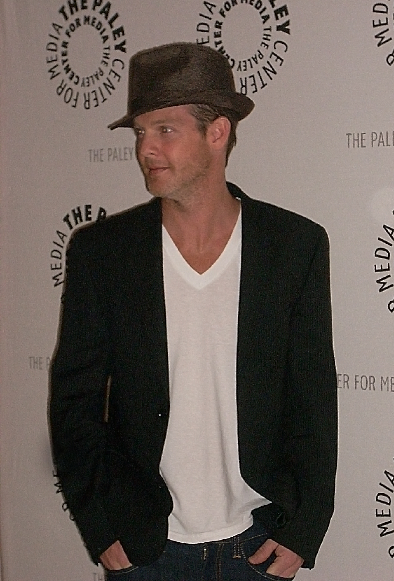 "Monk: 100 Episodes and Counting..." - Paley Center for Media, Dec. 2, 2008